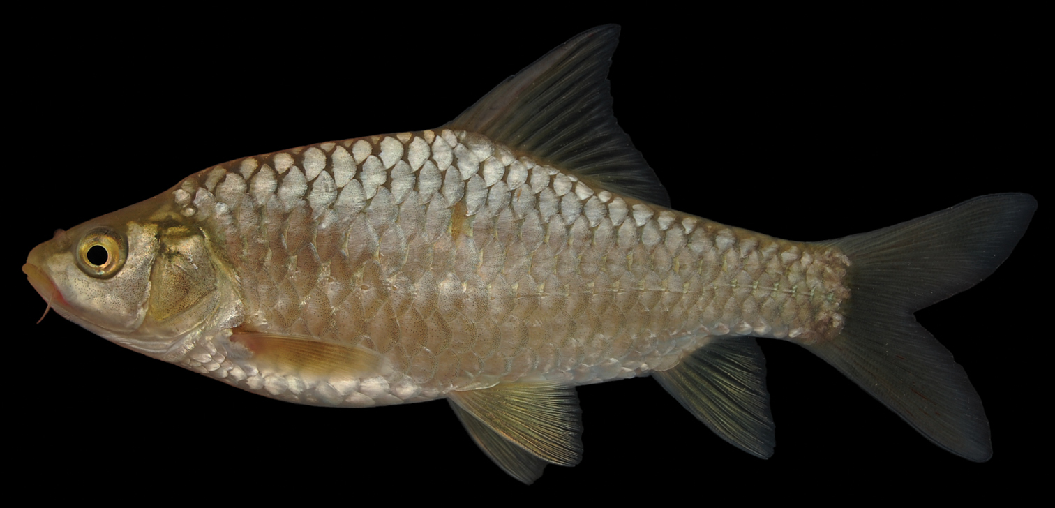 Carasobarbus luteus, live specimen from Nahr al Khābūr.